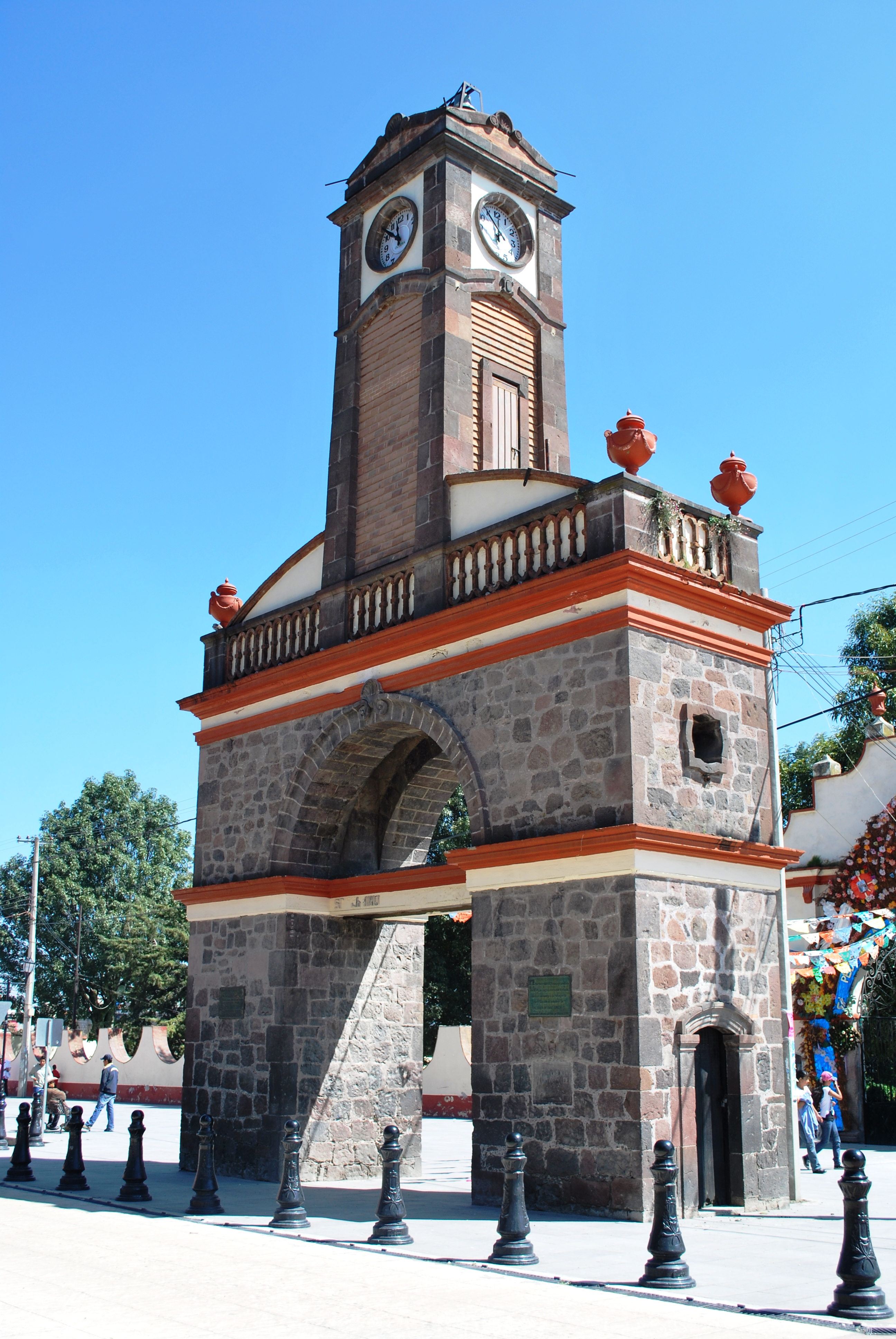 Clock tower in Calimaya, State of Mexico, Mexico